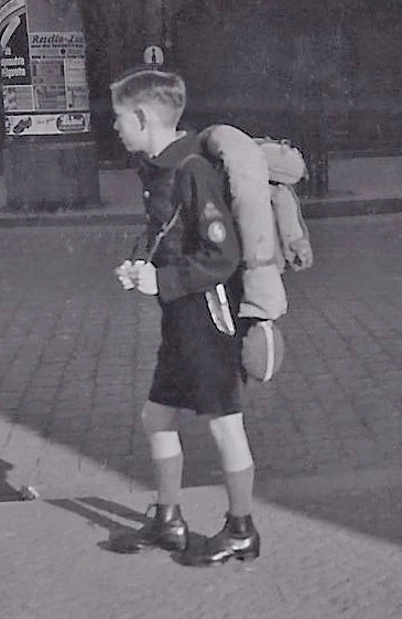 Jungvolk (Pimpf) in Berlin with field pack, Easter 1938